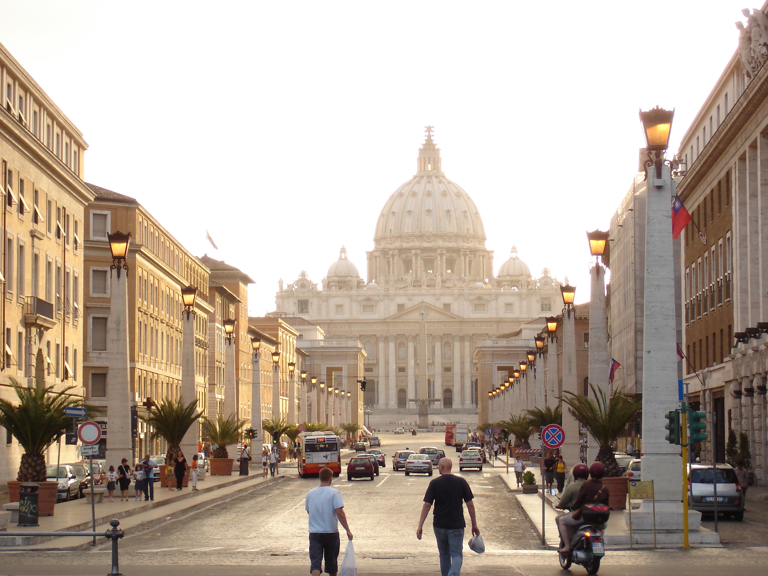 Rome in July